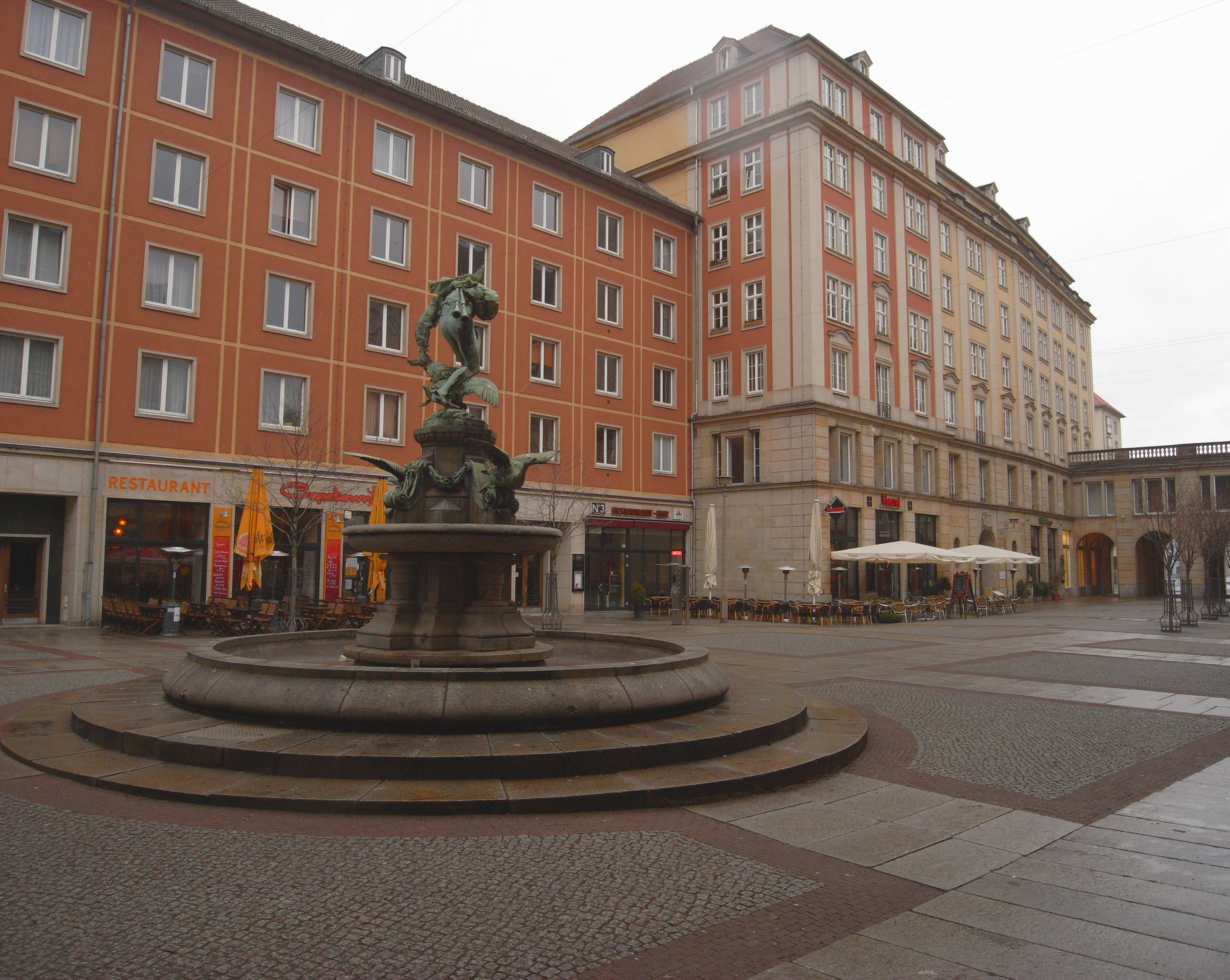 fountain Gänsediebbrunnen in the street Weisse Gasse in Dresden (sculptor: Robert Diez), Saxony, Germany